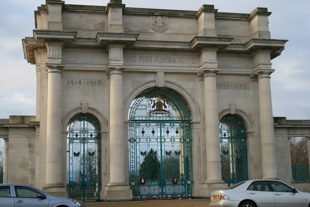 War Memorial Next to the Victoria Embankment